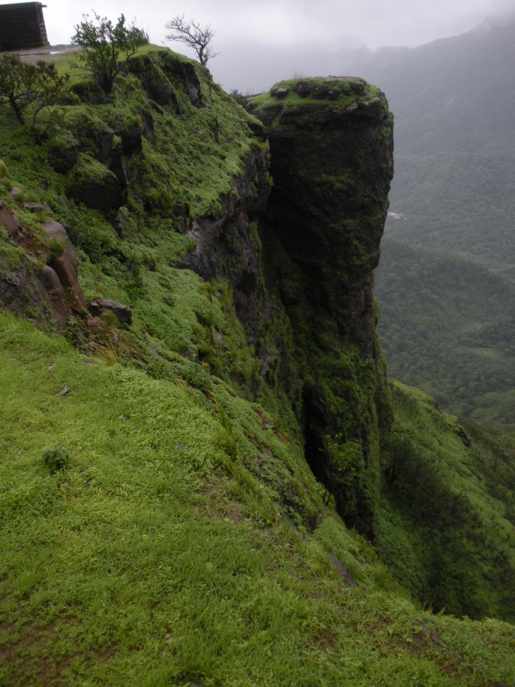 Louisa Ponit, Matheran (Hill Station), Mumbai